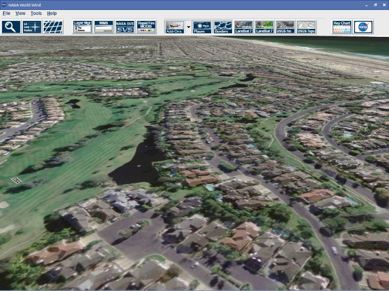 Screenshot from NASA World Wind v1.2